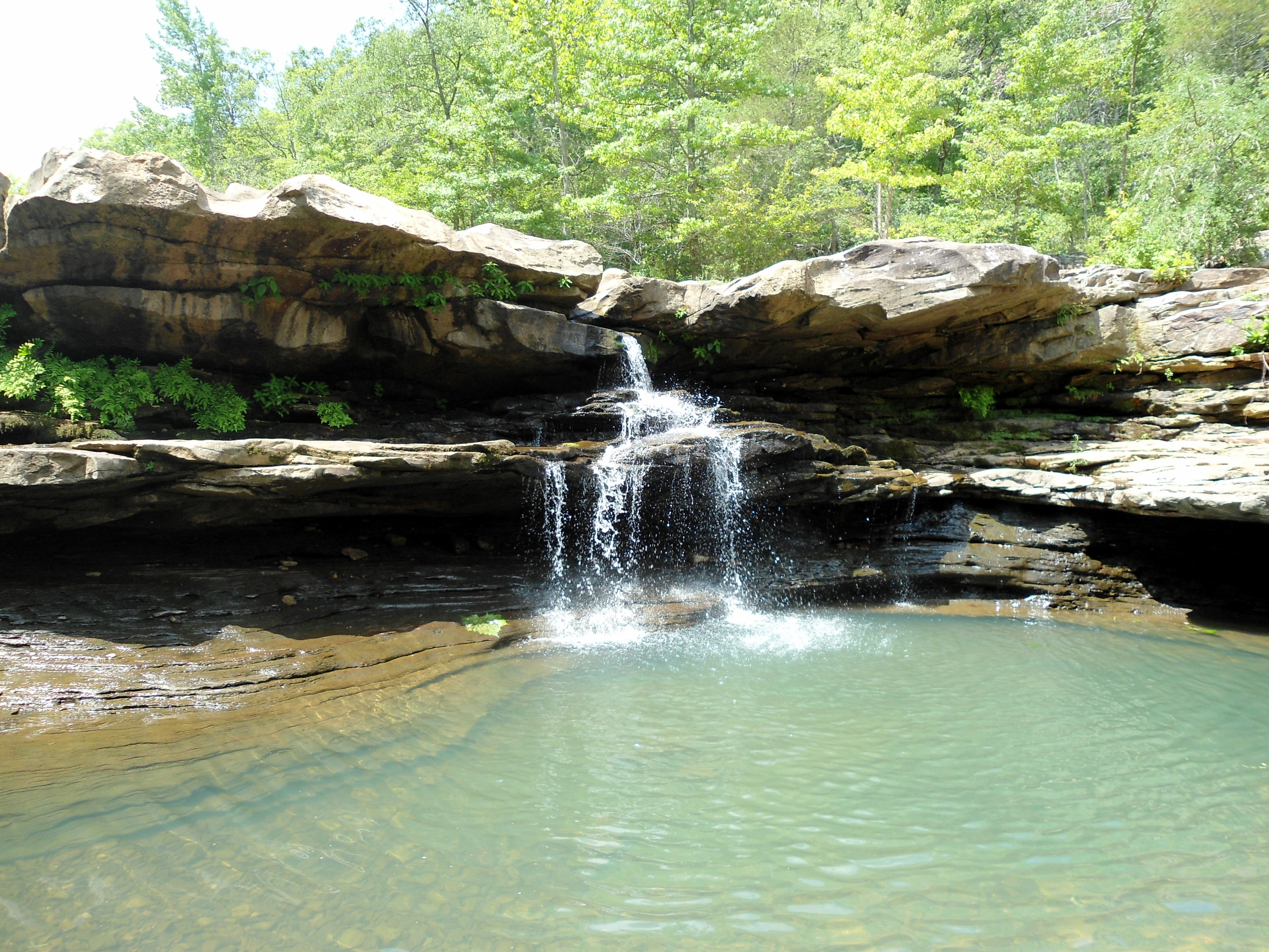 Kings River Falls in Madison County, AR at very low flow